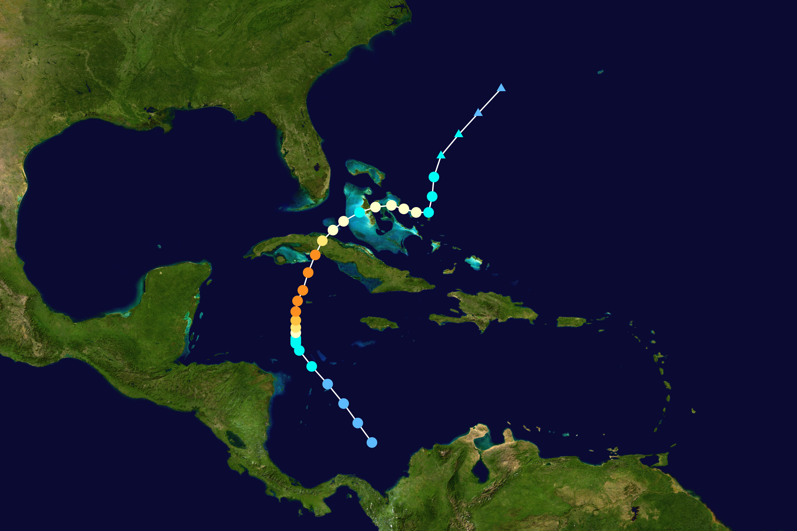 Track map of Hurricane Fox of the 1952 Atlantic hurricane season. The points show the location of the storm at 6-hour intervals. The colour represents the storm's maximum sustained wind speeds as classified in the Saffir–Simpson hurricane wind scale (see below), and the shape of the data points represent the nature of the storm, according to the legend below. Saffir–Simpson hurricane wind scale Tropical depression≤38 mph≤62 km/h Category 3111–129 mph178–208 km/h Tropical storm39–73 mph63–118 km/h Category 4130–156 mph209–251 km/h Category 174–95 mph119–153 km/h Category 5≥157 mph≥252 km/h Category 296–110 mph154–177 km/h Unknown Storm typeTropical cycloneSubtropical cycloneExtratropical cyclone / Remnant low / Tropical disturbance